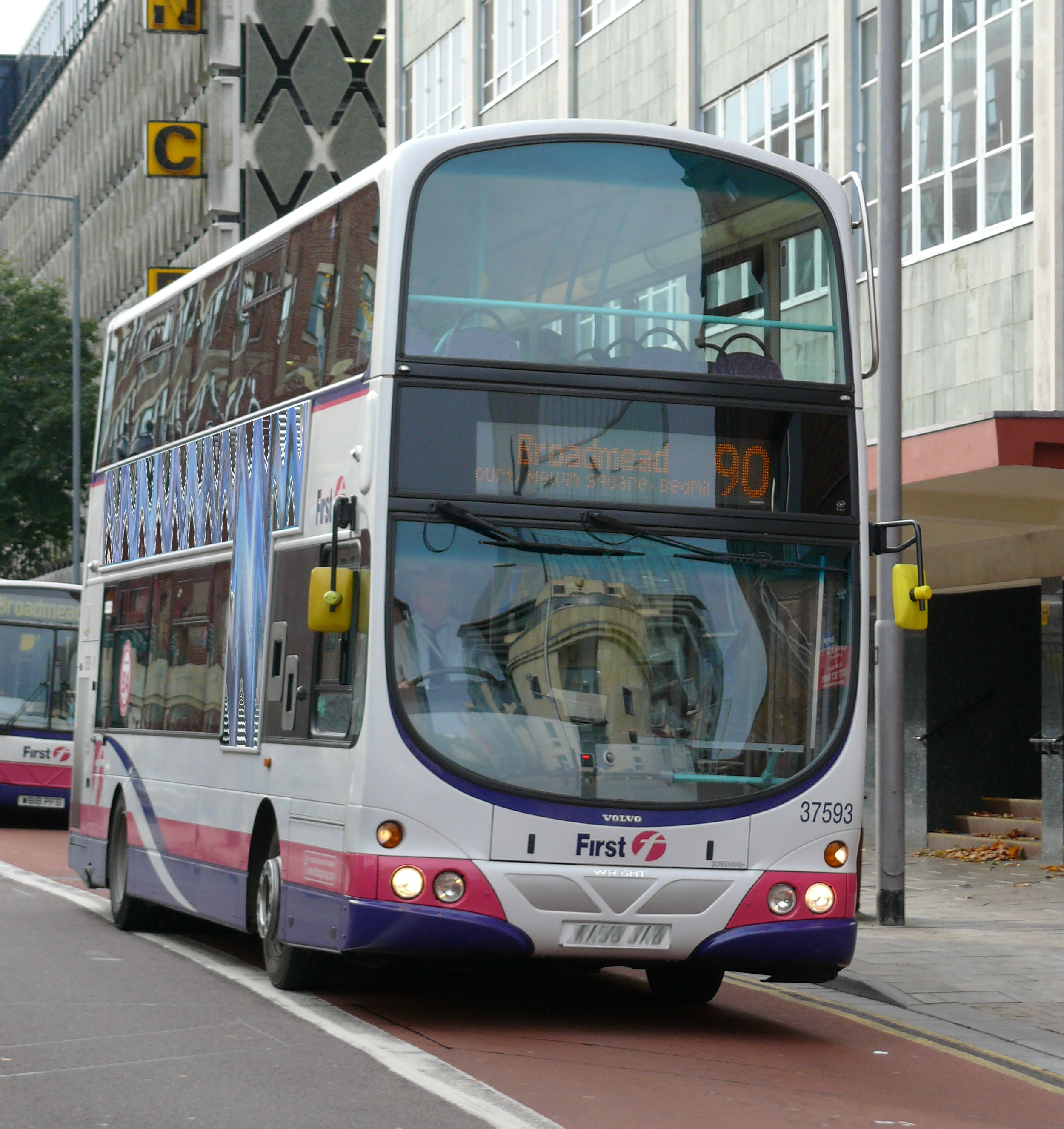 First Bristol bus 37593 (reg. WX58JXB) a Volvo B9TL double-decker in Bristol on route 90 to Broadmead.